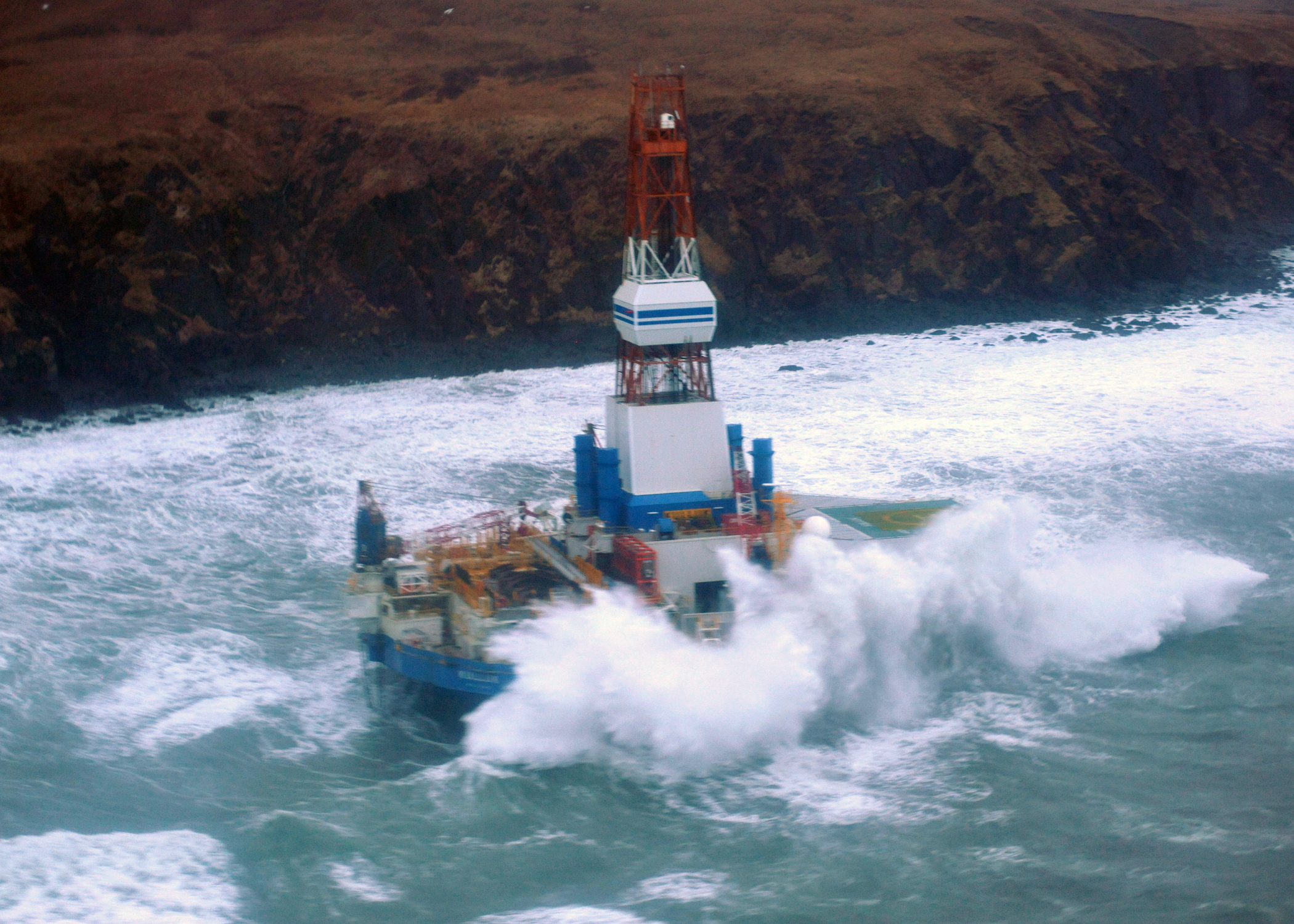 Waves crash over the conical drilling unit Kulluk where it sits aground on the southeast side of Sitkalidak Island, Alaska, Jan. 1, 2013. A Unified Command, consisting of the Coast Guard, federal, state and local partners and industry representatives was established in response to the grounding. U.S. Coast Guard photo by Petty Officer 3rd Class Jonathan Klingenberg.